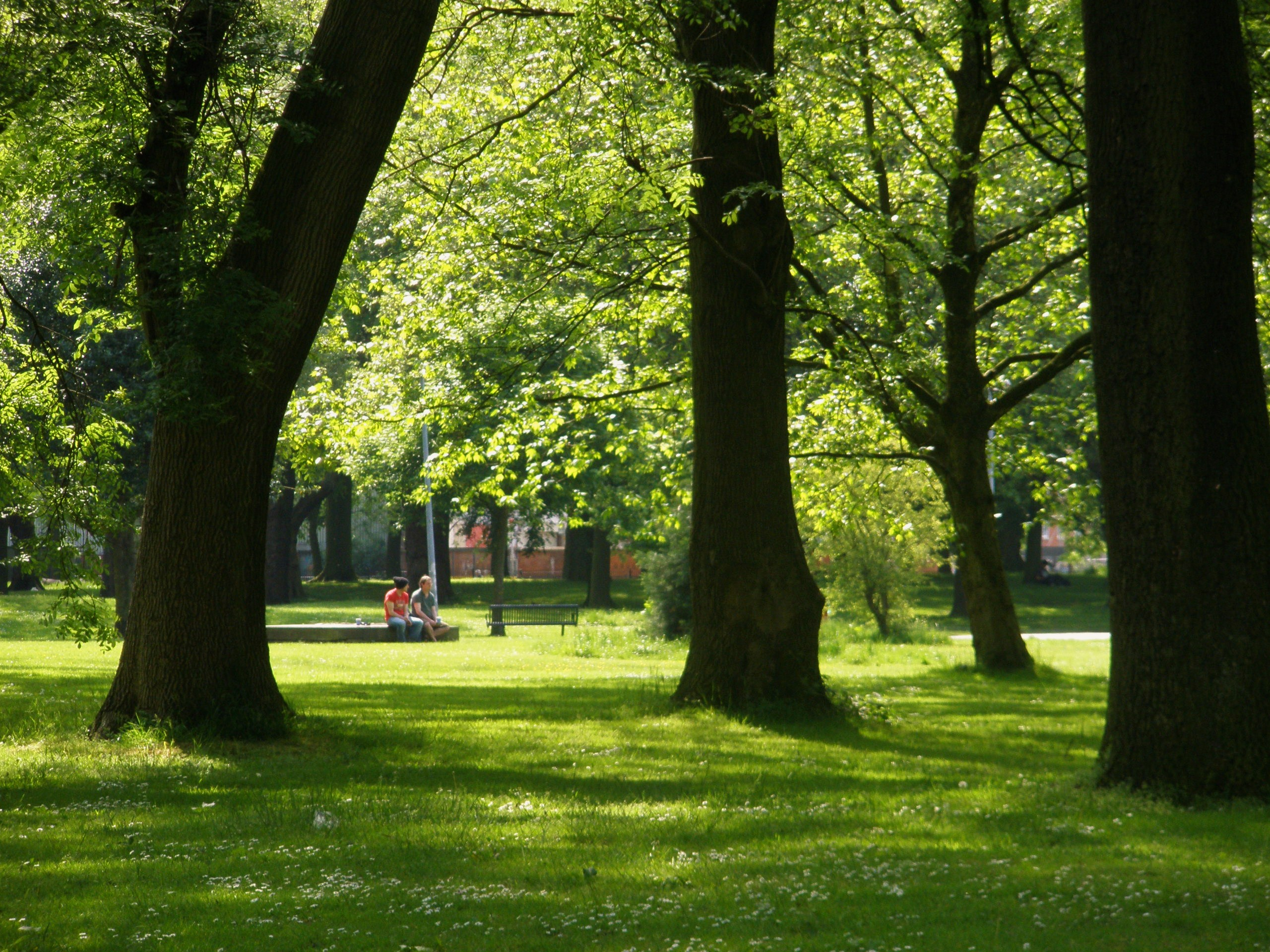 People sat in Whitworth Park, Moss Side, Manchester, UK.